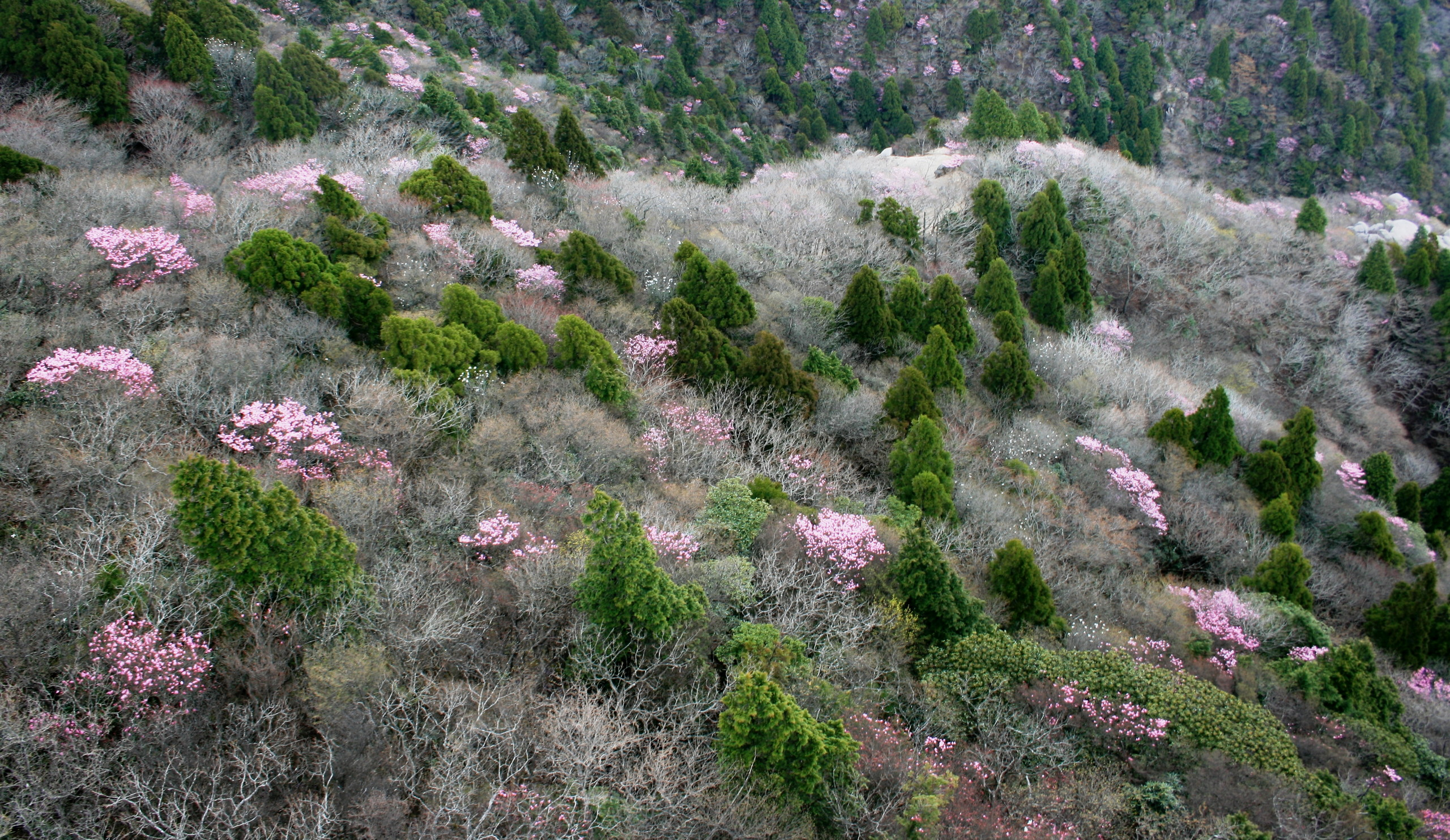 Rhododendron pentaphyllum var. nikoense and Magnolia salicifolia in Mount Gozaisho